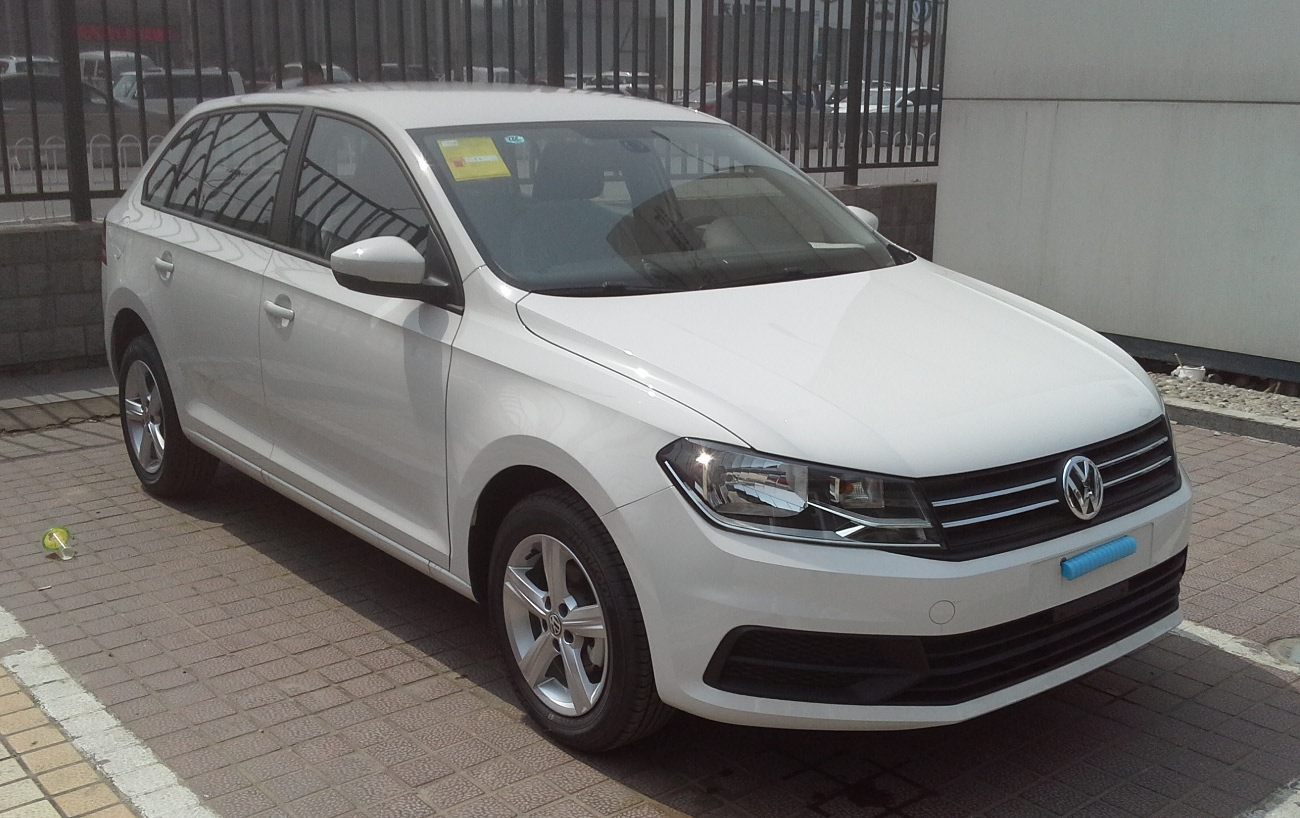 Volkswagen Gran Santana photographed in Beijing, China.